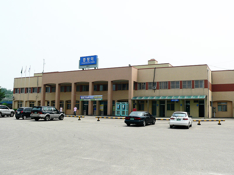 KORAIL Jeungpyeong Station